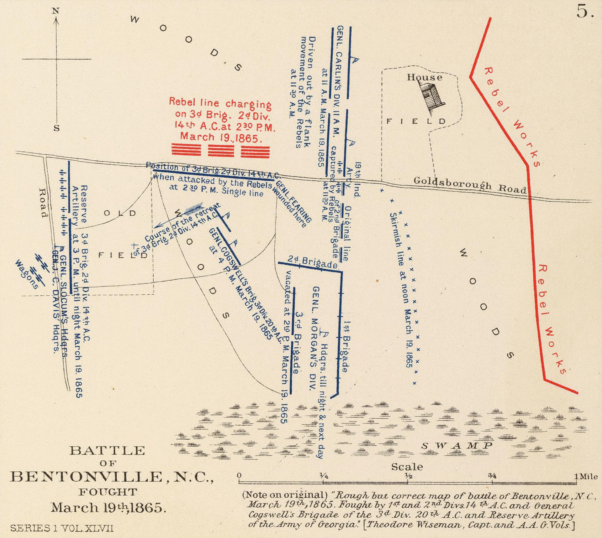 Battle of Bentonville, N.C., fought March 19th, 1865.Author: United States. War Department